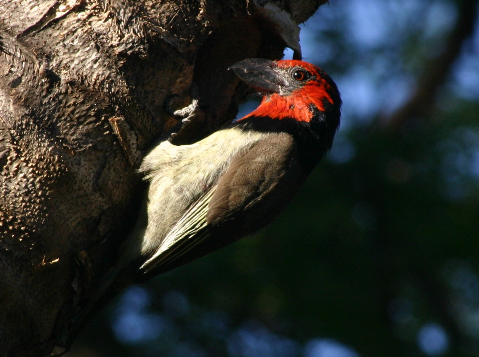 Black-collared Barbet (Lybius torquatus) in Johannesburg garden